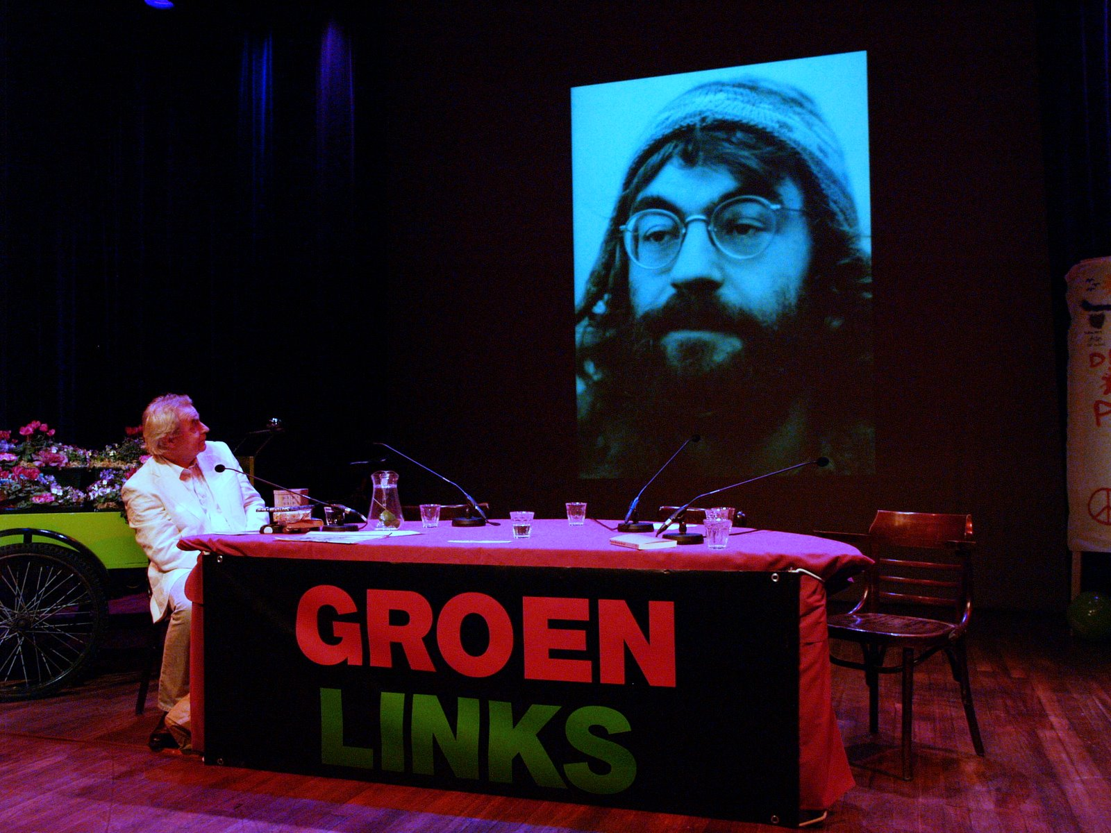 provo Roel van Duyn (1943) watching a photo of himself in the 1960s